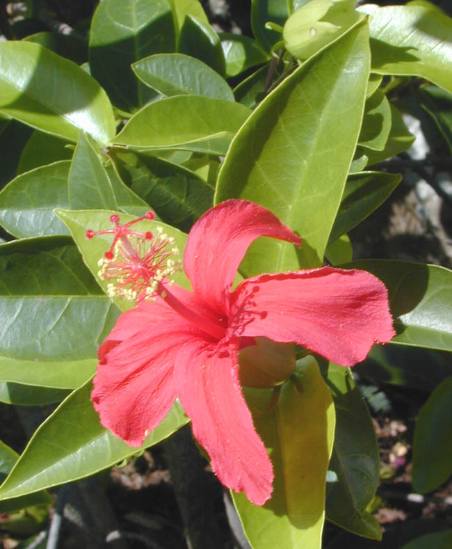 Hibiscus clayi flower and leaves. Photographed in Hawai'i by Eric Guinther (Marshman).